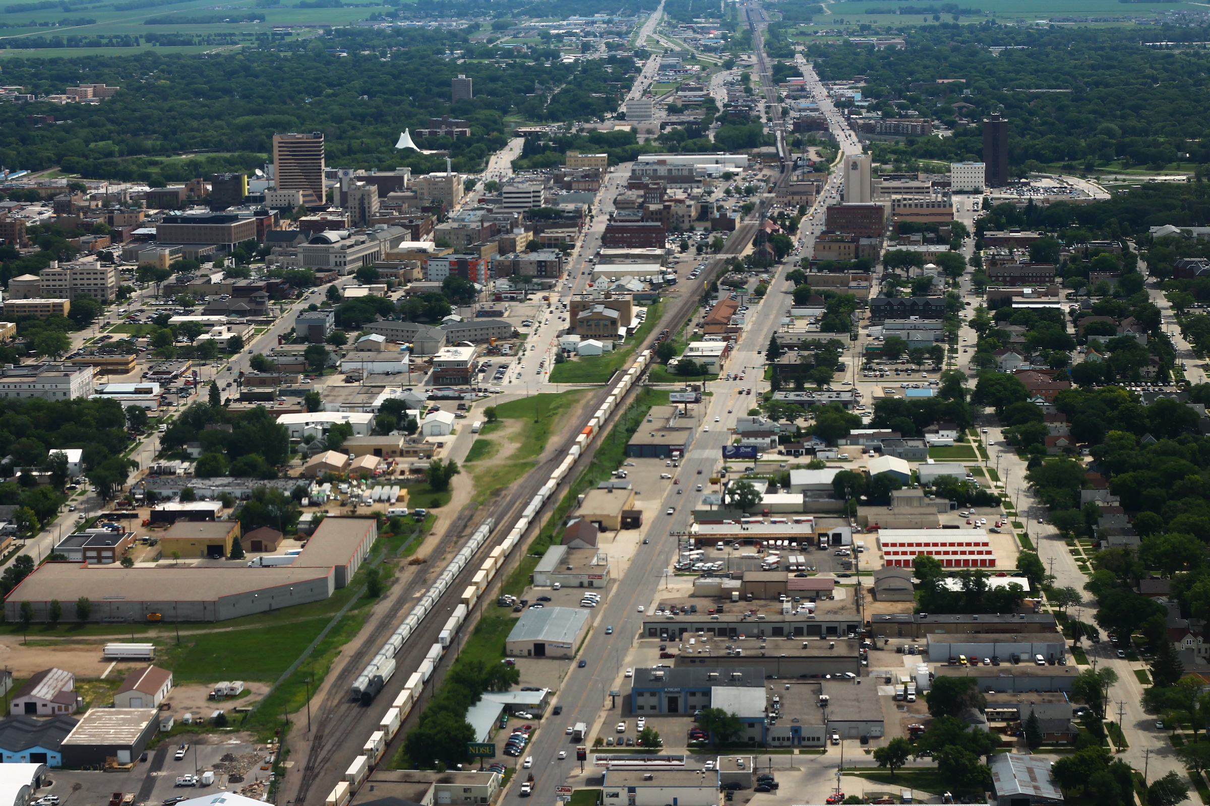 An aerial view of Fargo, North Dakota, looking east.